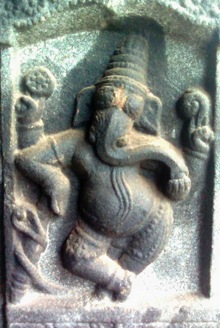 Stone carved Ganesha on pillars of Simhachalam Temple